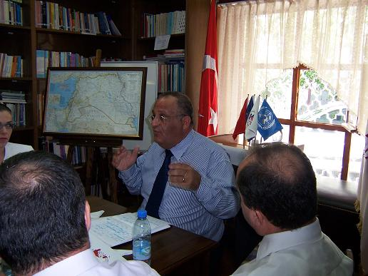 Pinhas Avivi, Israel's Ambassador to Ankara, gives a lecture at USAK (ISRO) International Strategic Research Organization, Ankara, Turkiye (Turkey), 2006